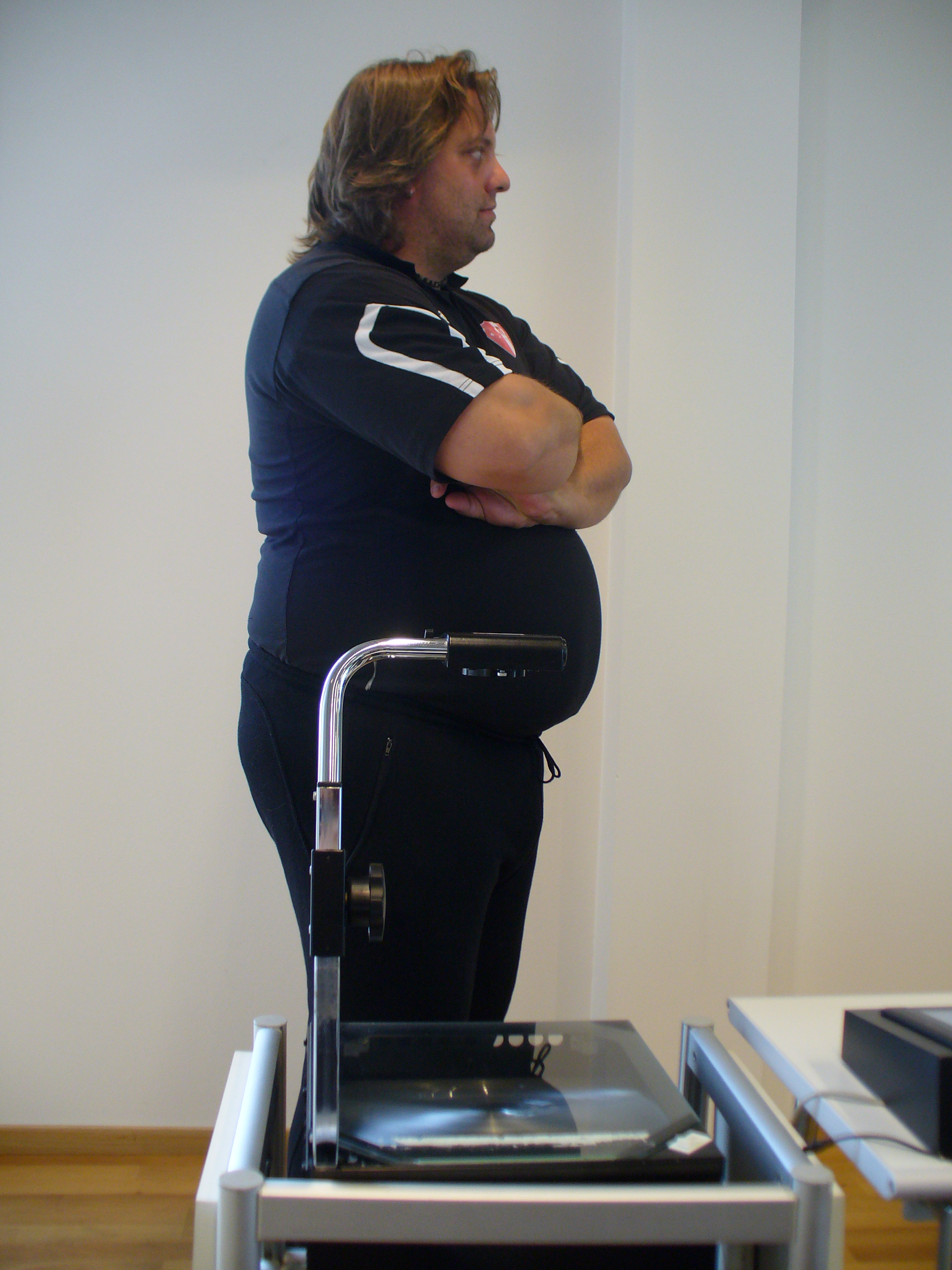 Football coach Richard Lidberg lecturing for FCZ.